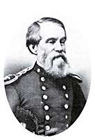 Capt. James Hervey Simpson of the U.S. Army Corps of Topographical Engineers, circa 1878. Simpson, a West Point graduate (1832), became the Army’s chief topographical engineer in Utah in 1858. Explored a shorter route through the Great Basin to California.